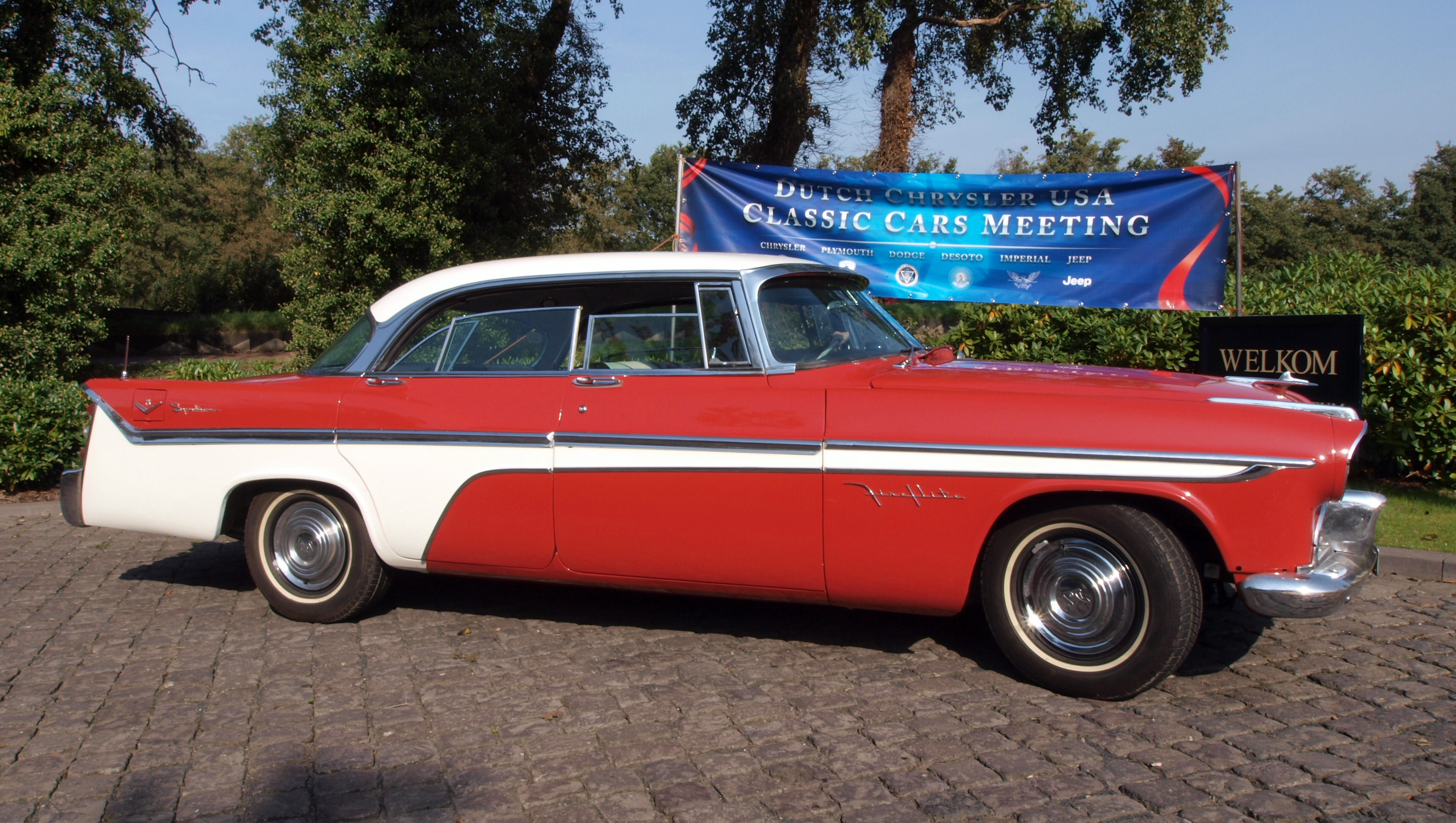 1956 DeSoto Fireflite Sportsman 4-door hardtop, Photographed at the premises of the Louwman museum, The Hague, The Netherlands. OLYMPUS DIGITAL CAMERA